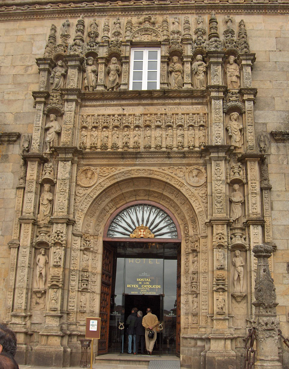 Entrance to the residence of the Catholic Kings, formerly used as a haven of refuge and a hospital for the pilgrims; now turned into a 5-star parador; Santiago de Compostela, Spain